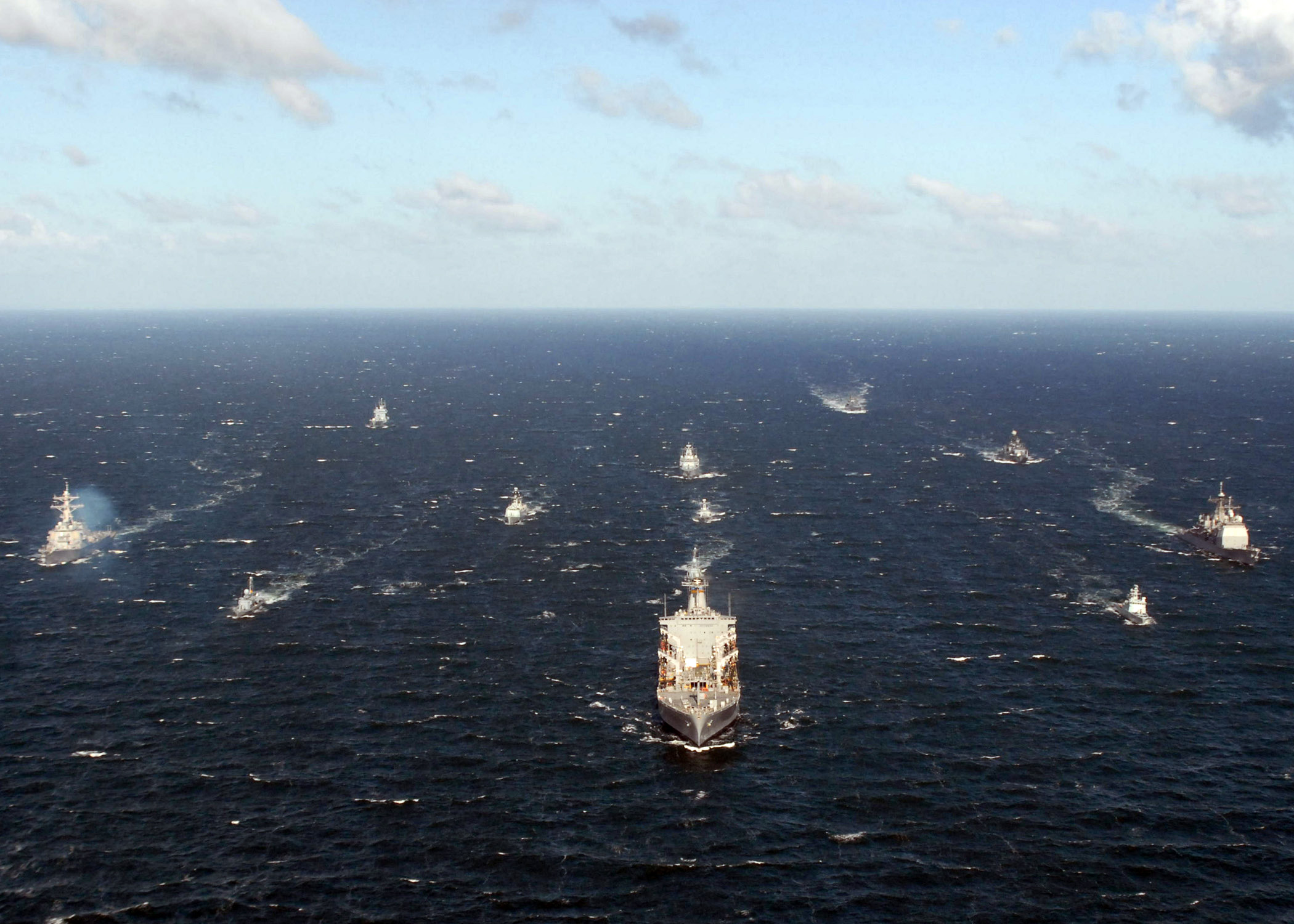 BALTIC SEA (June 11, 2008) Ships from various navies participating in Baltic Operations (BALTOPS) maneuver into formation. BALTOPS is an annual international exercise involving 13 countries. U.S. Navy photo by Mass Communication Specialist Second Class Mike Banzhaf (Released)